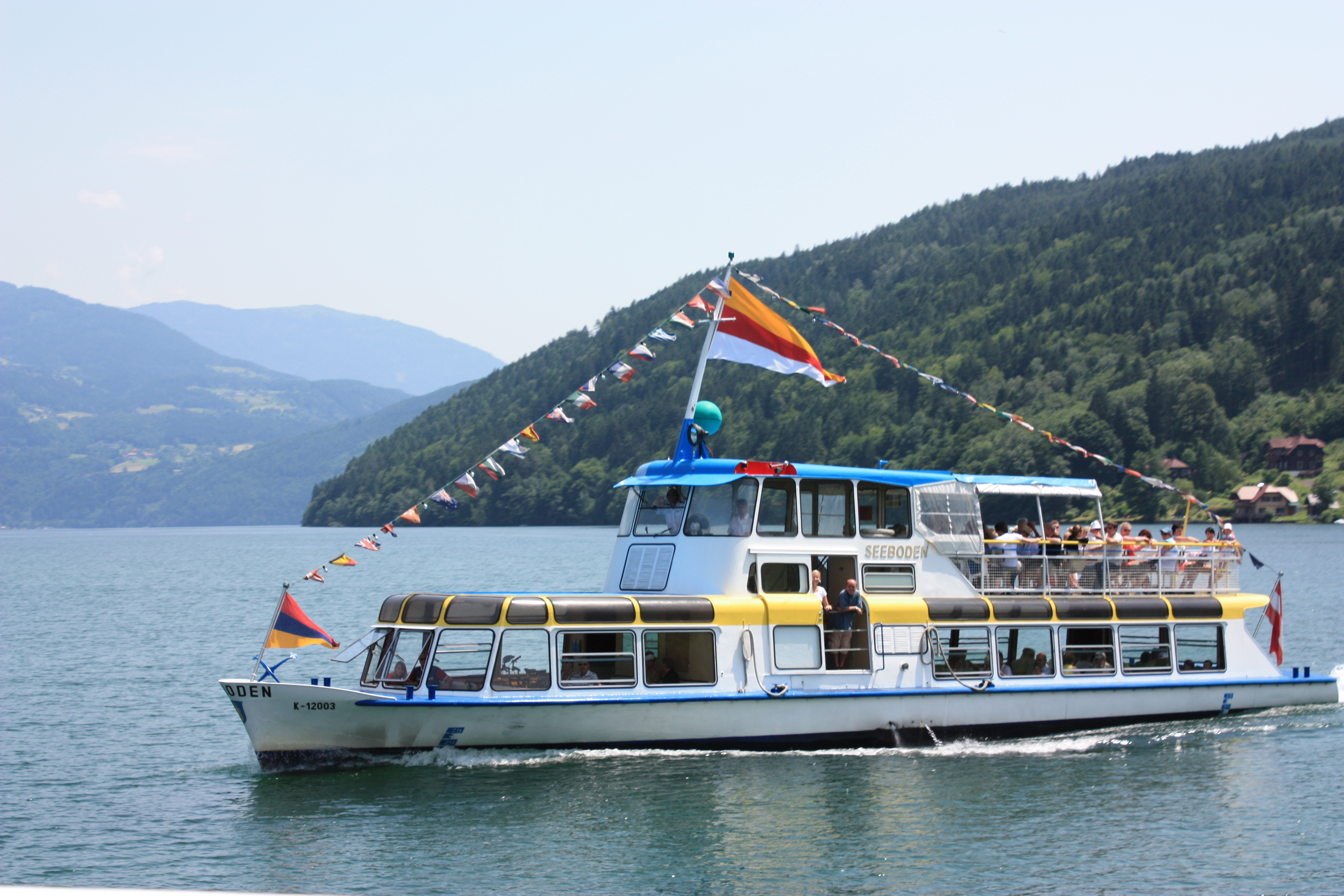 MS Seeboden (day-trip-ship) Location:Millstätter See